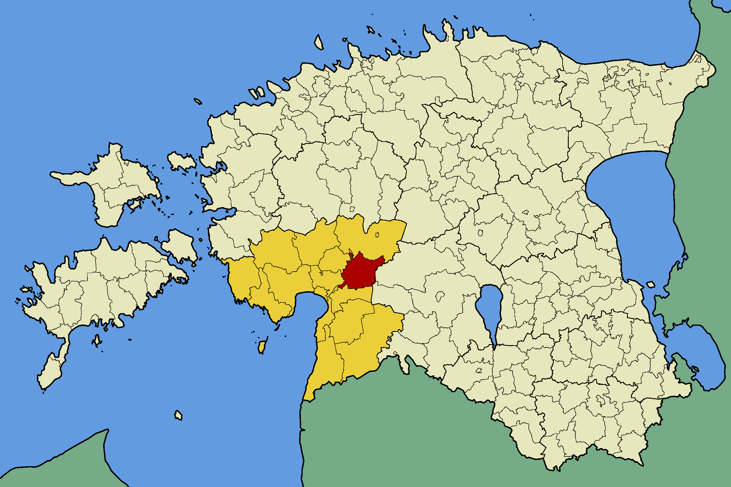 Map of Estonia with borders of municipalities (parishes). Pärnu county and Tori municipality emphasized.